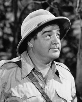 Lou Costelloin Africa Screams - cropped screenshot